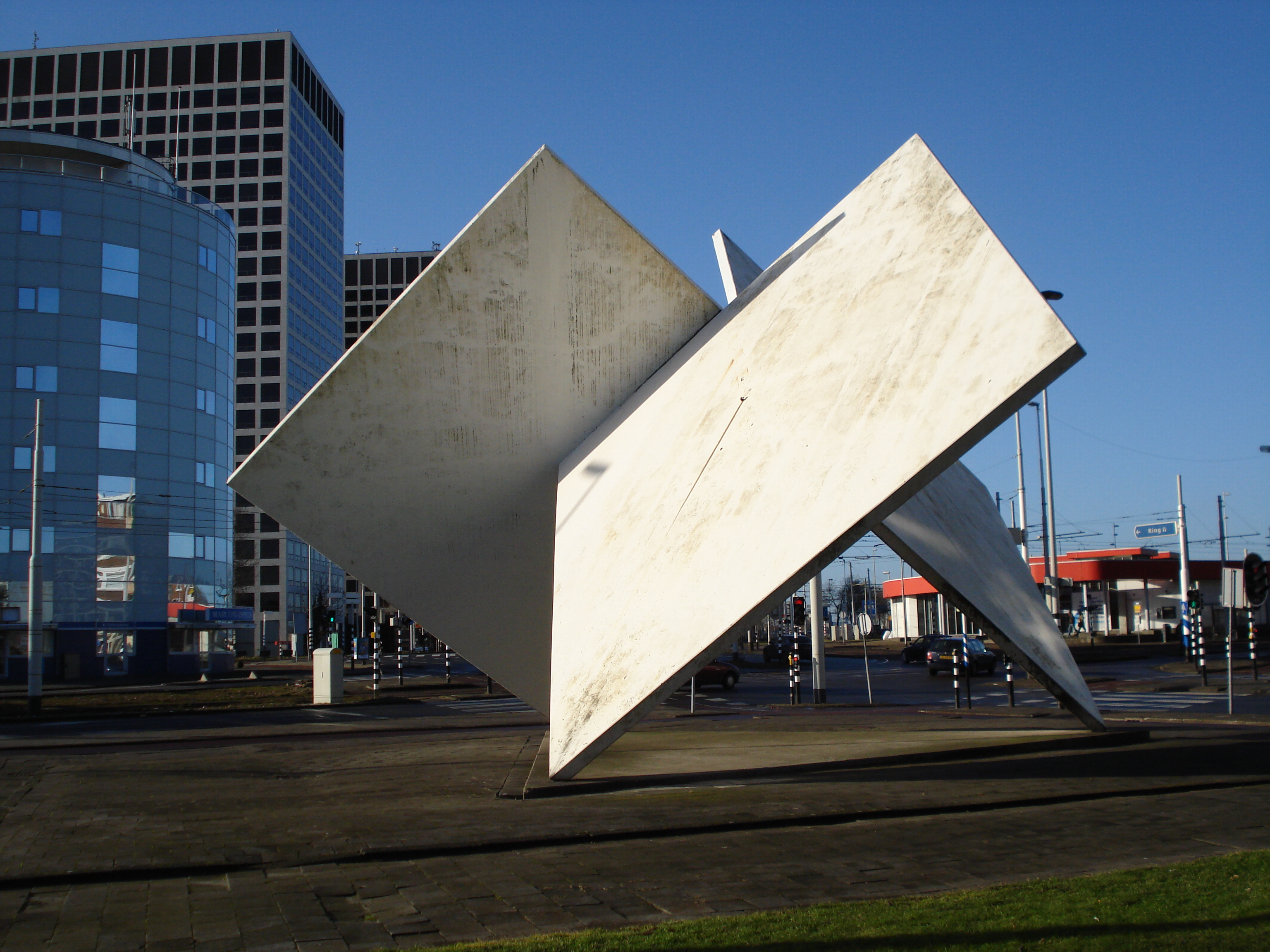 Sculpture Homage to Oud and Van Doesburg by Lucien den Arend (1987) in Rotterdam/The Netherlands